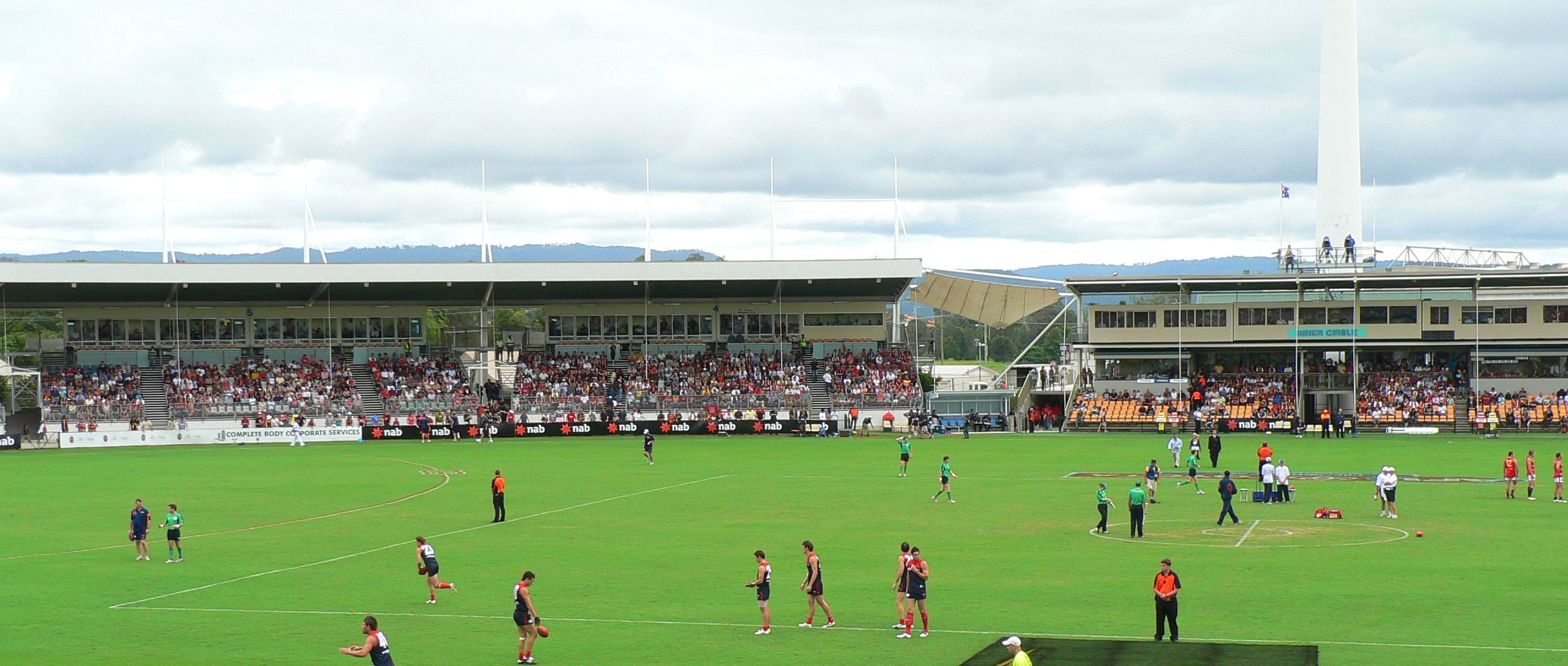 Carrara Stadium. Gold Coast, Queensland